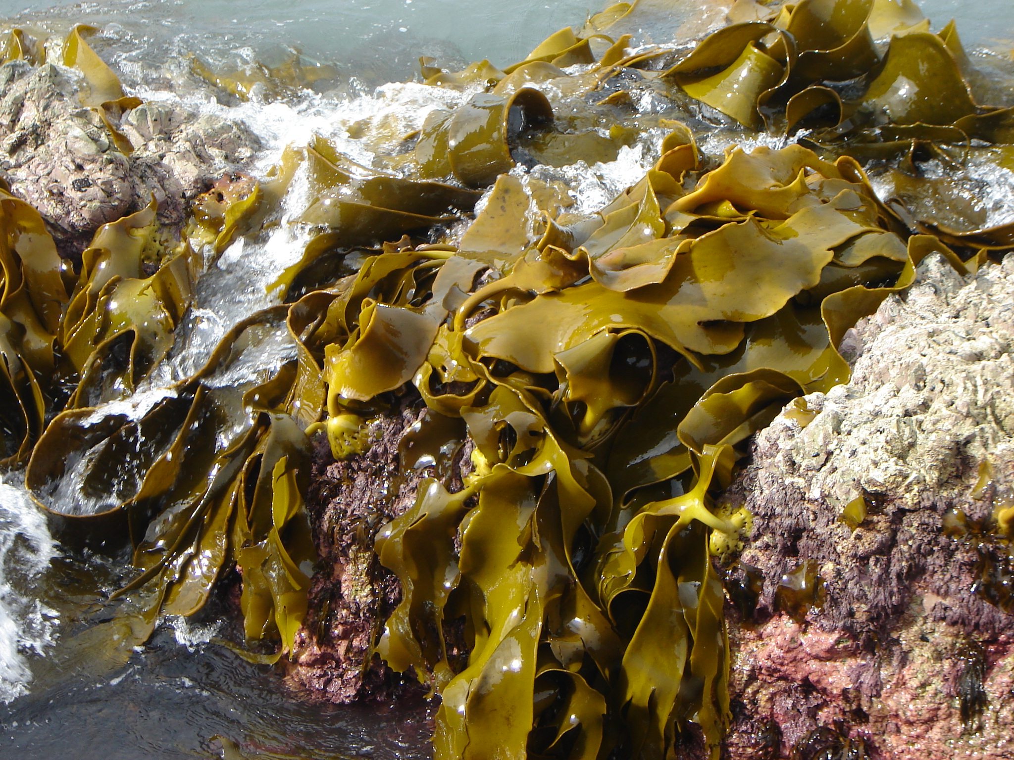 Durvillaea antarctica on the coast of New Zealand.